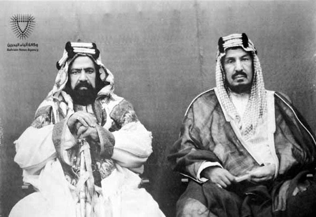 The King of Bahrain Salman bin Hamad Al-Khalifa (left) with the Saudi king Abdulaziz bin Saud (right). Taken prior to 1953.